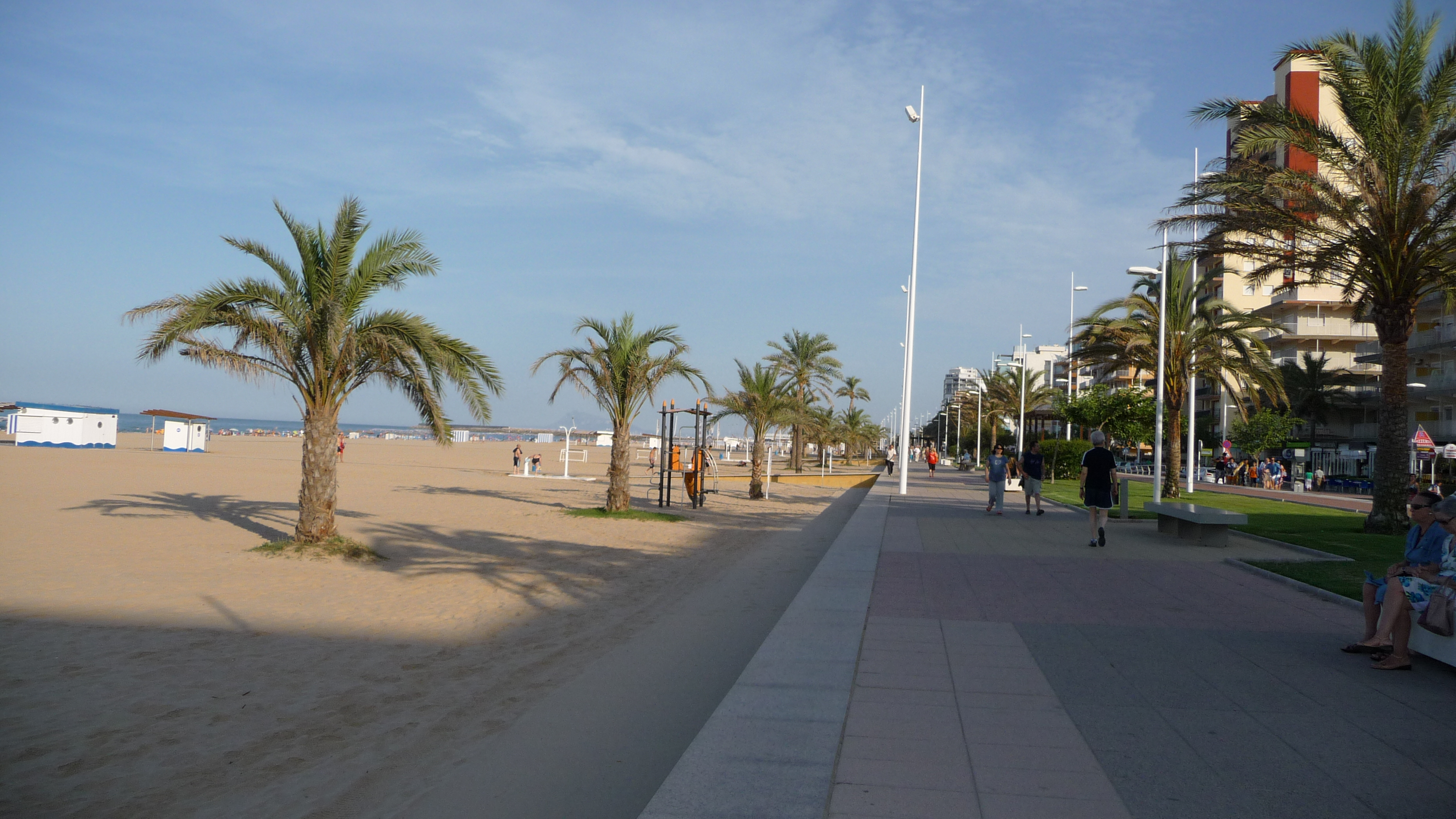 Gandia beachfront in the evening.